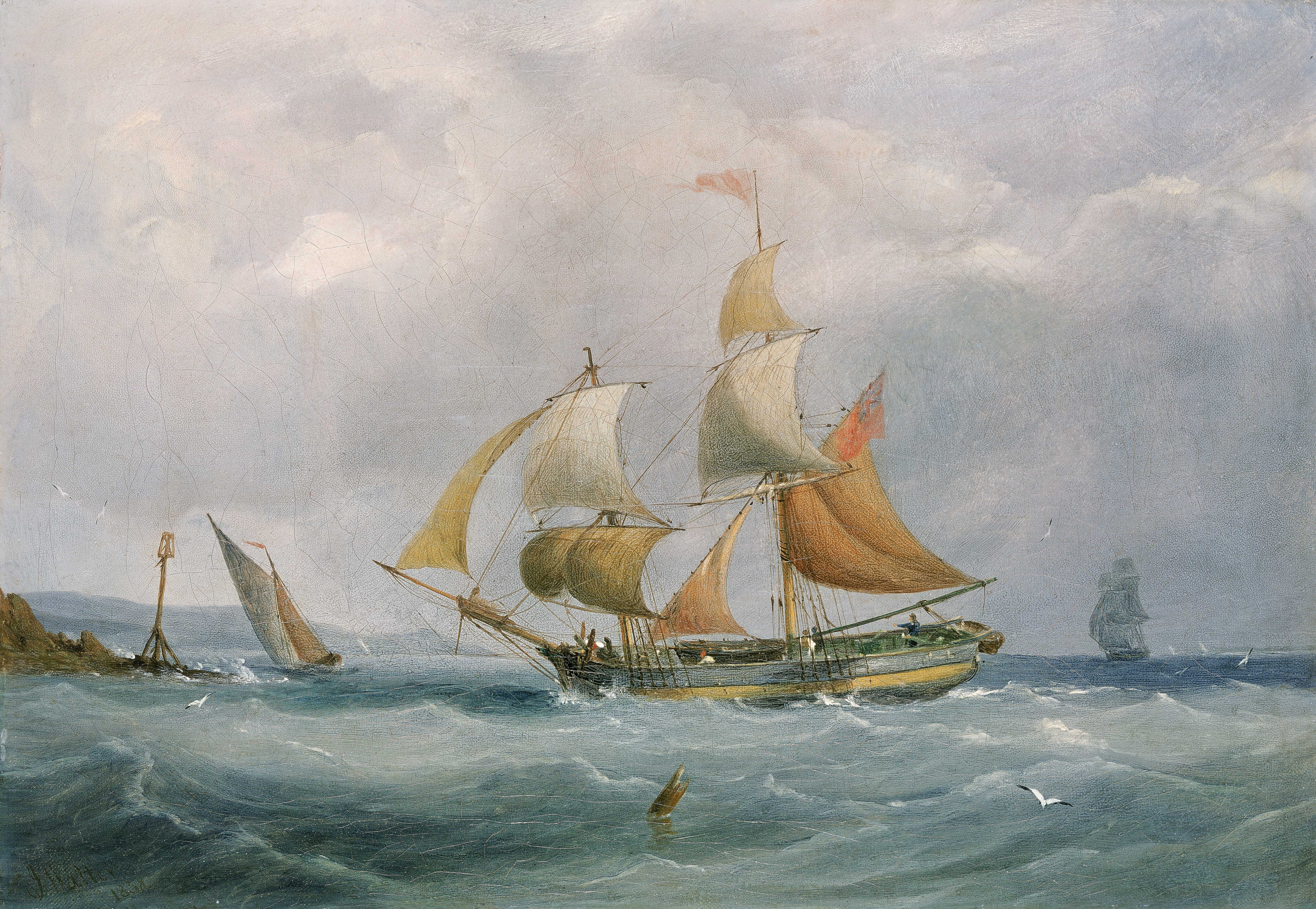 A brig is shown with fore-topgallant mast struck. It is running into the Bristol Avon and the end of the channel is marked with a beacon on the rocks on the left. What may be a pilot cutter is on the left, with land visible in the distance beyond. A full-rigged ship and distant land on the Welsh side of the Bristol Channel are visible on the right.